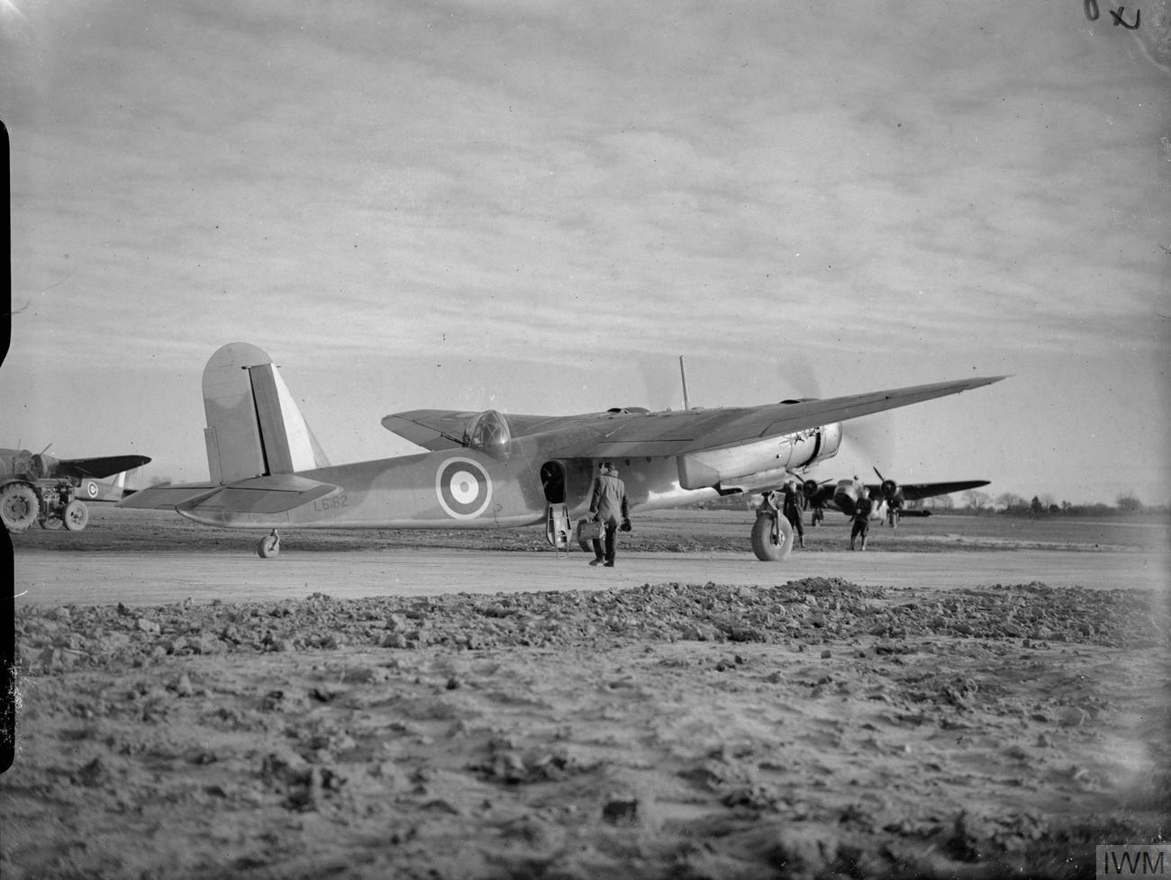 IWM caption : Blackburn Botha Mark I, L6162, of No. 1 (Coastal) Operational Training Unit, preparing for departure on a training flight at Silloth, Cumberland.